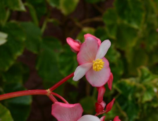 Begonia minor flowering plant on Madeira.